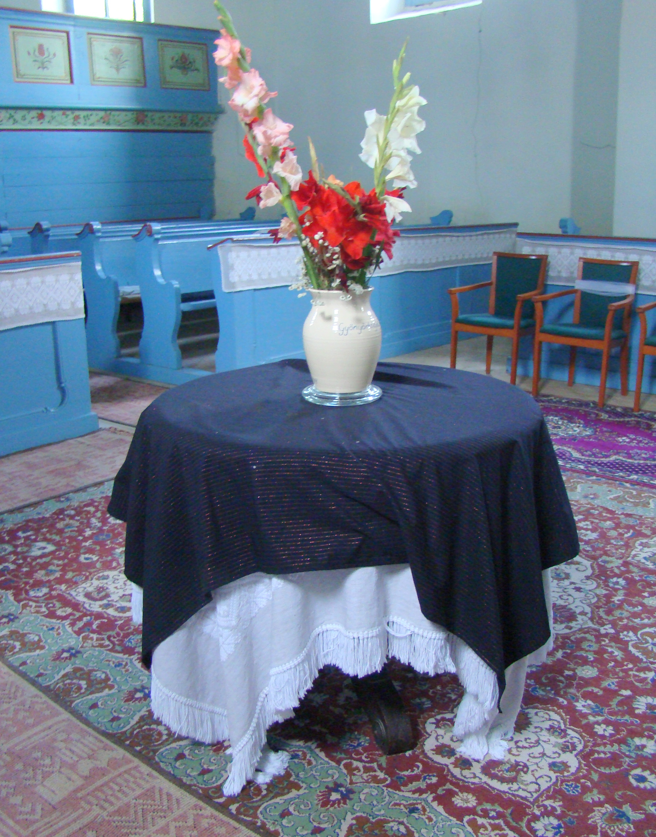 Reformed church in Ulieș, Harghita County, Romania